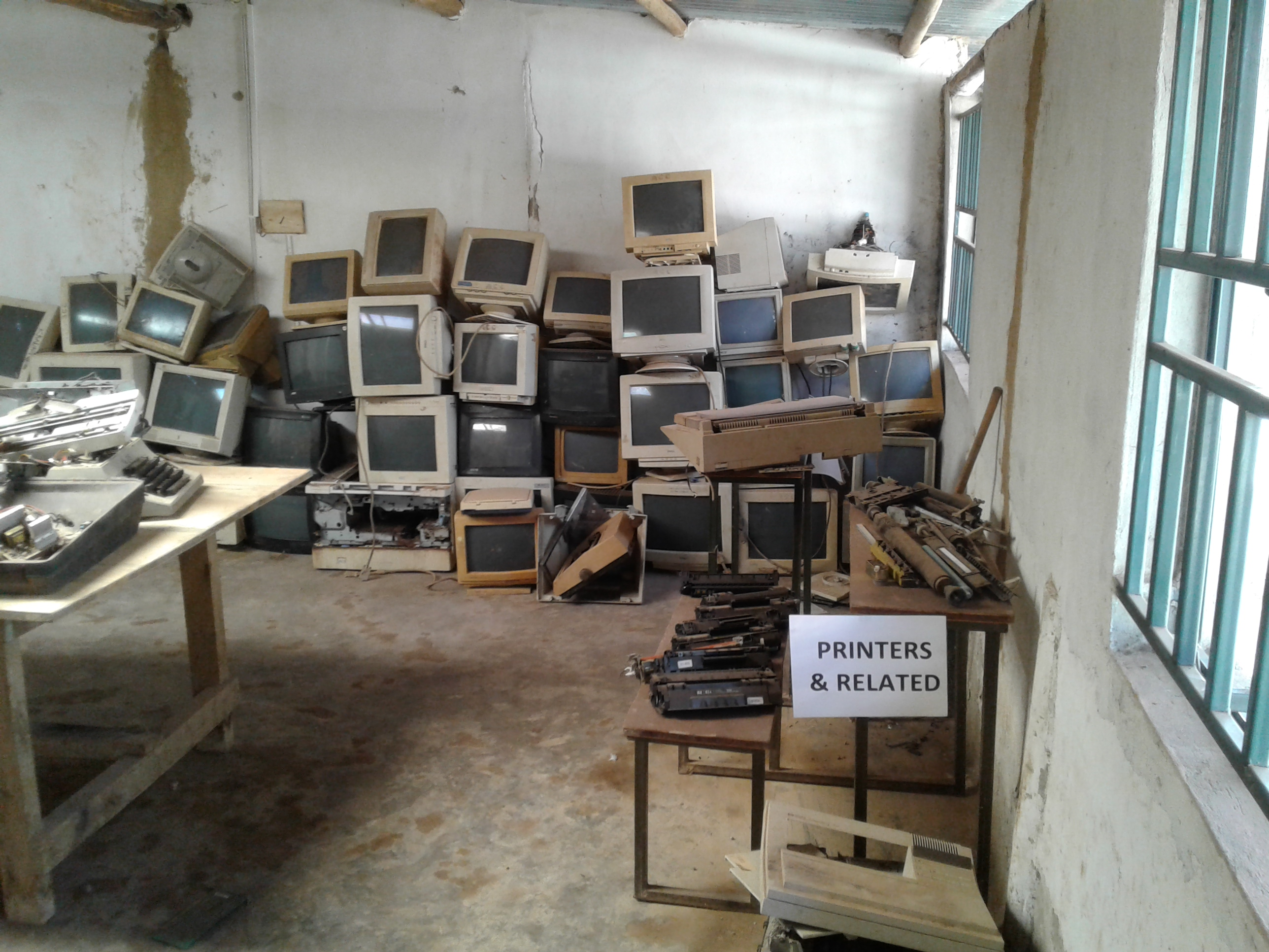 The former computer laboratory of ACCT